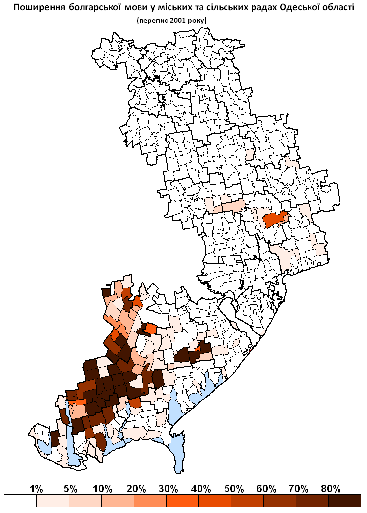 Percentage of bulgarian native speakers in Odesa oblast according to 2001 census